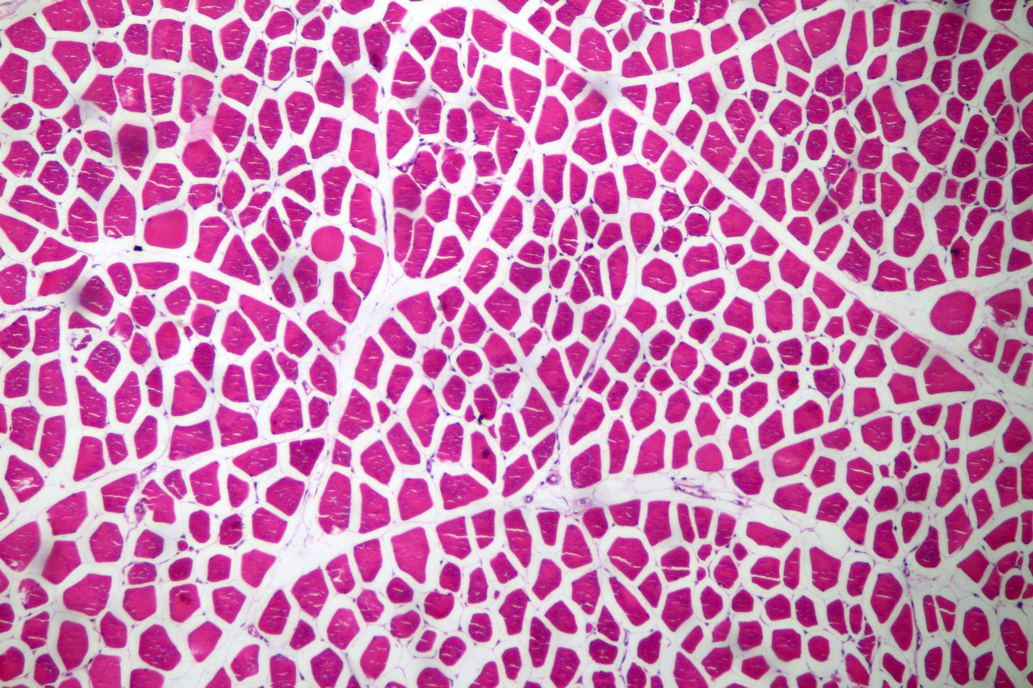 Pig femoral muscle